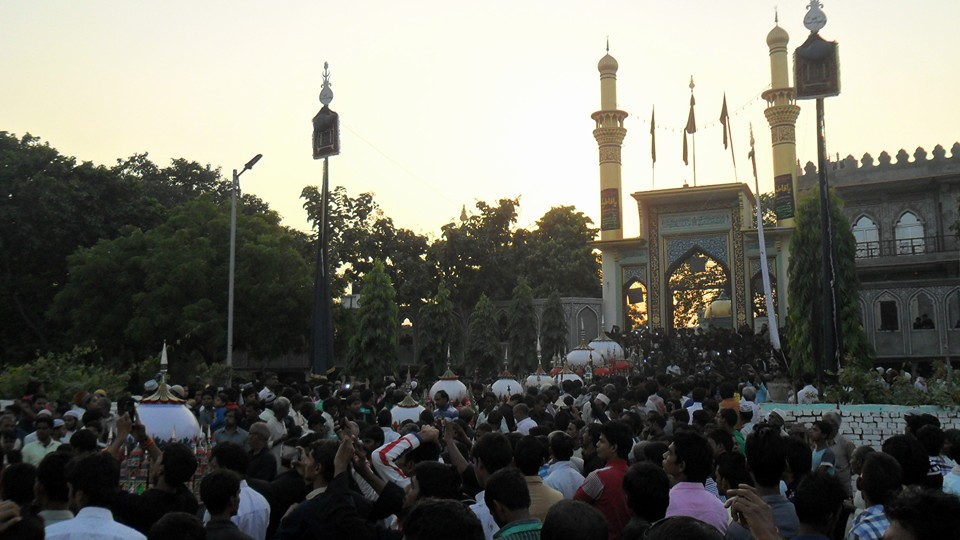 The Gate of Sadr Imam Bargah Baragaon Ghosi A photo taken by Nasim Haider